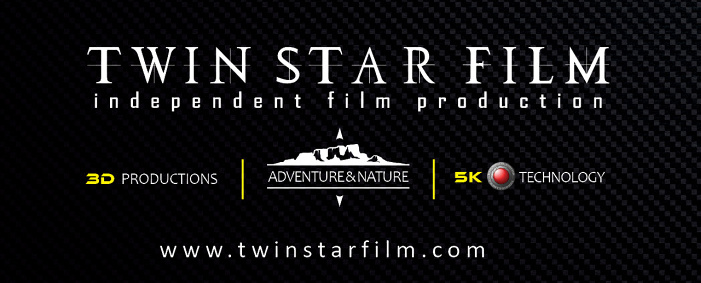 logo TSF